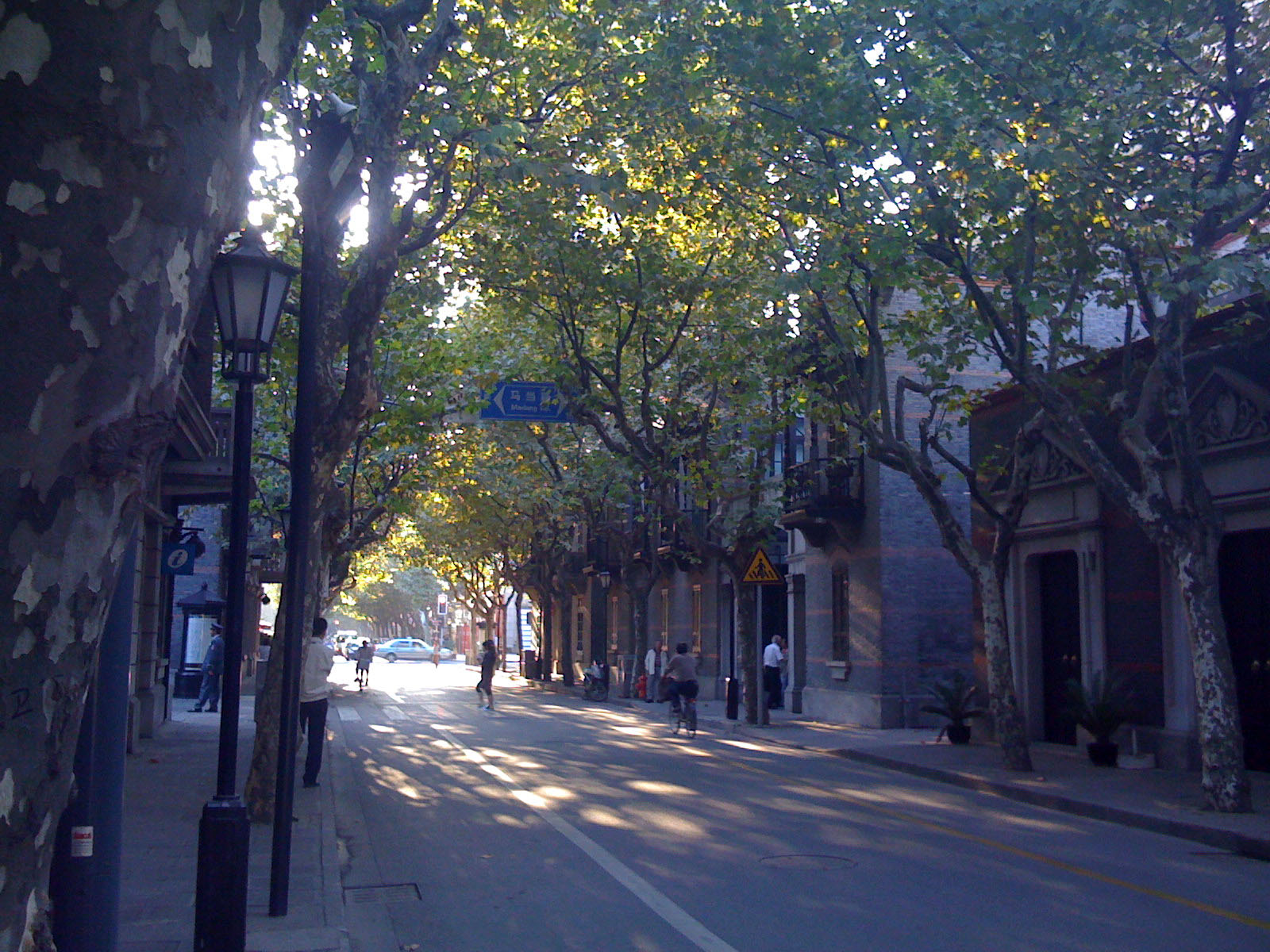 The Xintiandi area in Shanghai, China.